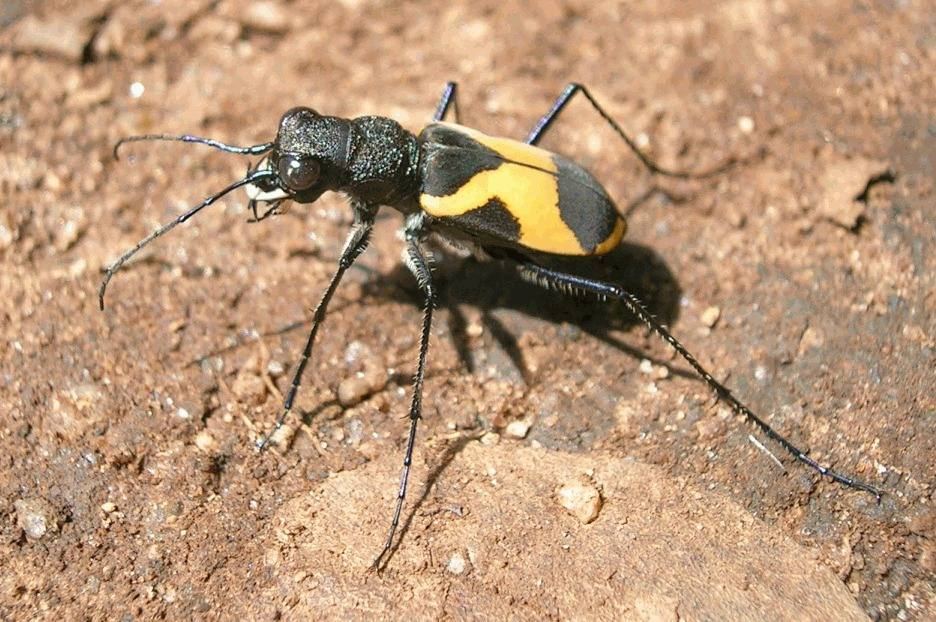 Tiger Beetle Cicindela goryi, Cicindelidae Bannerghatta, Bangalore Photograph by L. Shyamal, 2006